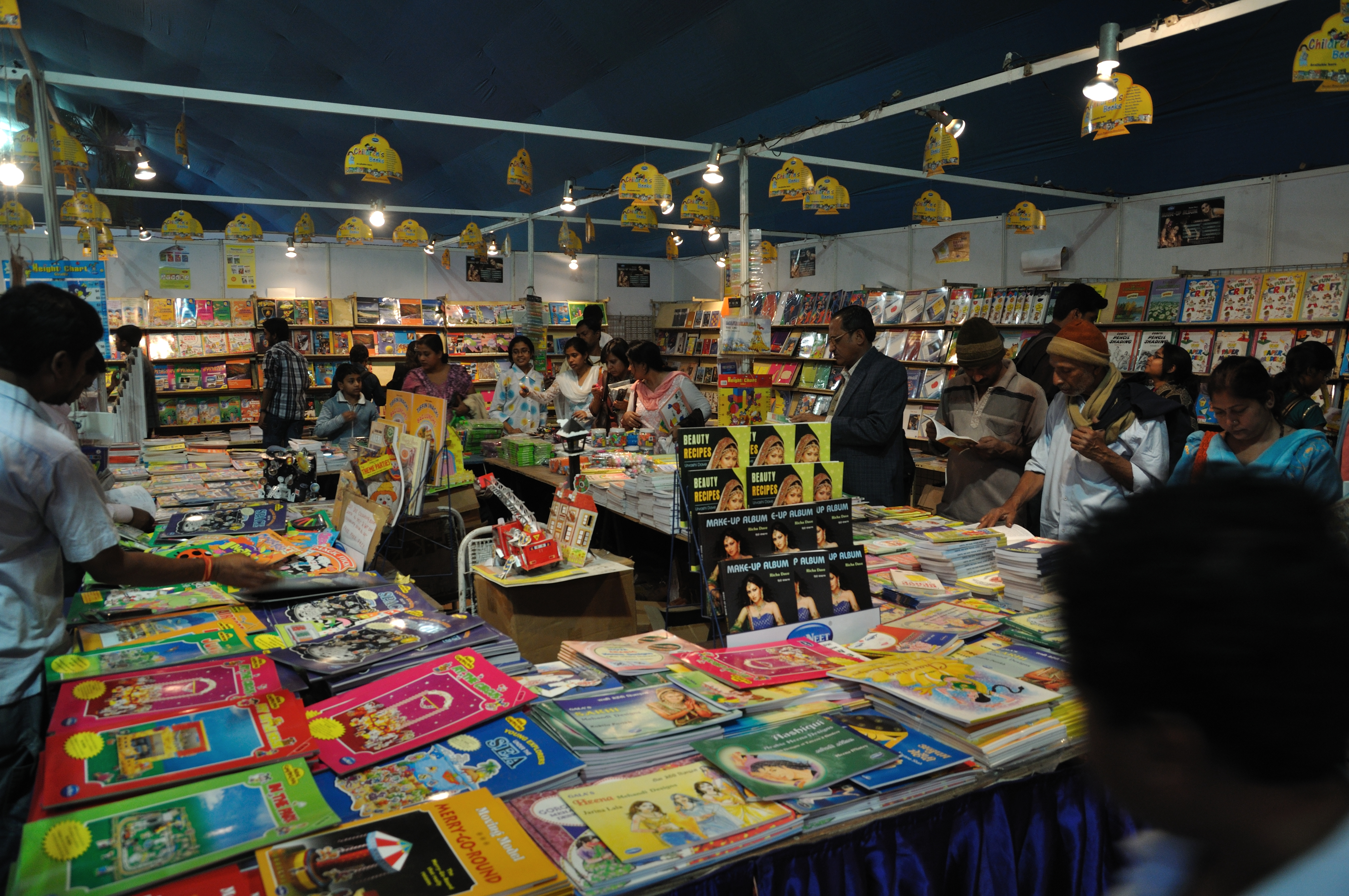 The Kolkata Book Fair (Old name: Calcutta Book Fair in English, and officially Kolkata Boimela or Kolkata Pustakmela,is a winter fair in Kolkata. It is a unique book fair in the sense of not being a trade fair - the book fair is primarily for the general public rather than whole-sale distributors. It is the world's largest non-trade book fair, Asia's largest book fair and the most attended book fair in the world. In 2011, the fair took place at ‘Milan Mela’ ground from 26th january to 6th February, opposite of ‘Science City’, Kolkata.